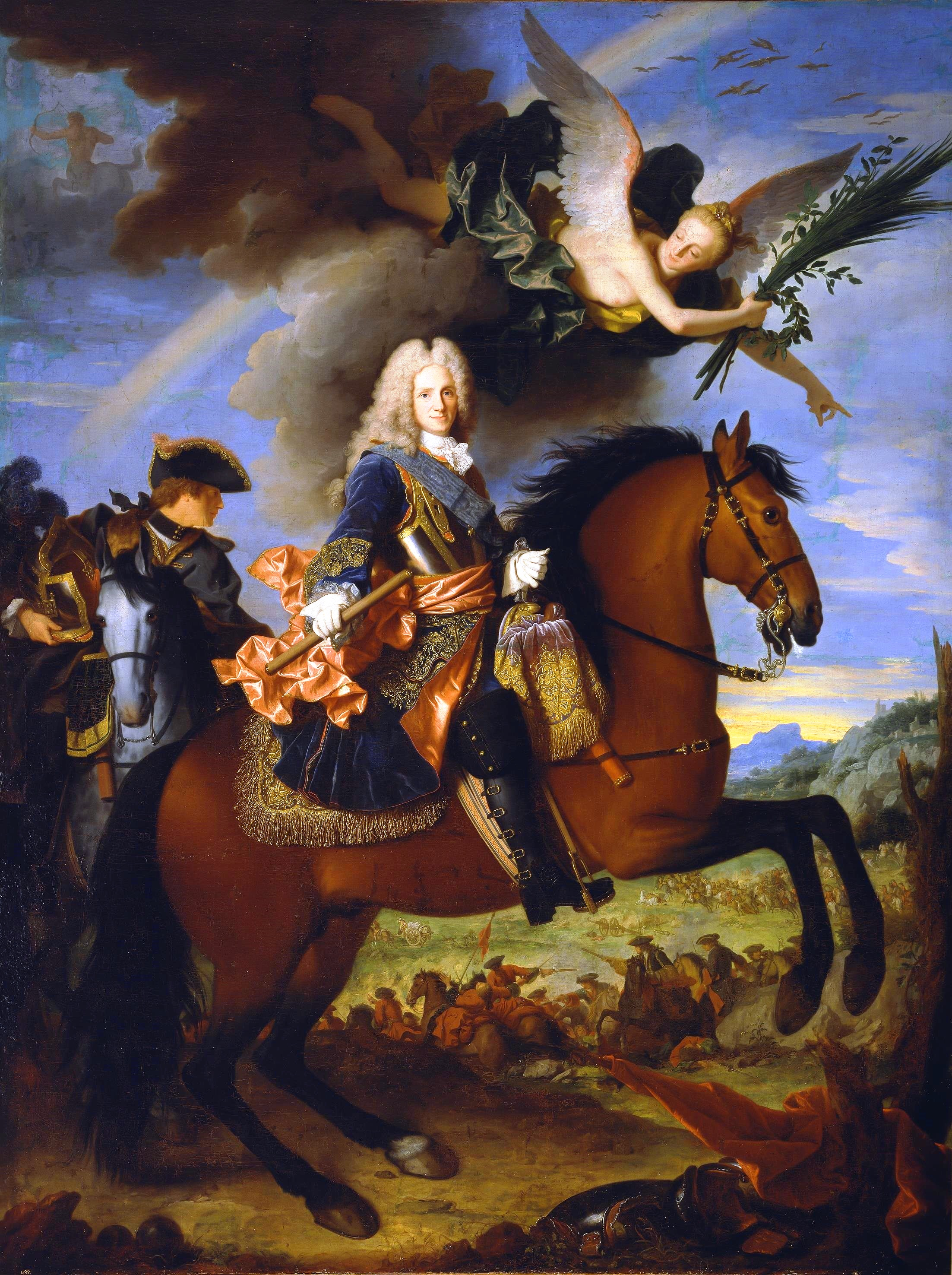 Philip V of Spain (19 December 1683 - 9 July 1746), born Philippe de France, fils de France and duc d'Anjou, was king of Spain from 1700 to 1724 and from 1724 to 1746, the first of the Bourbon dynasty in Spain. Philip was the second son of Louis, Le Grand Dauphin and Maria Anna Victoria of Bavaria,[1] known as Dauphine Victoire. He was a younger brother of Louis, duc de Bourgogne and an uncle of Louis XV of France.